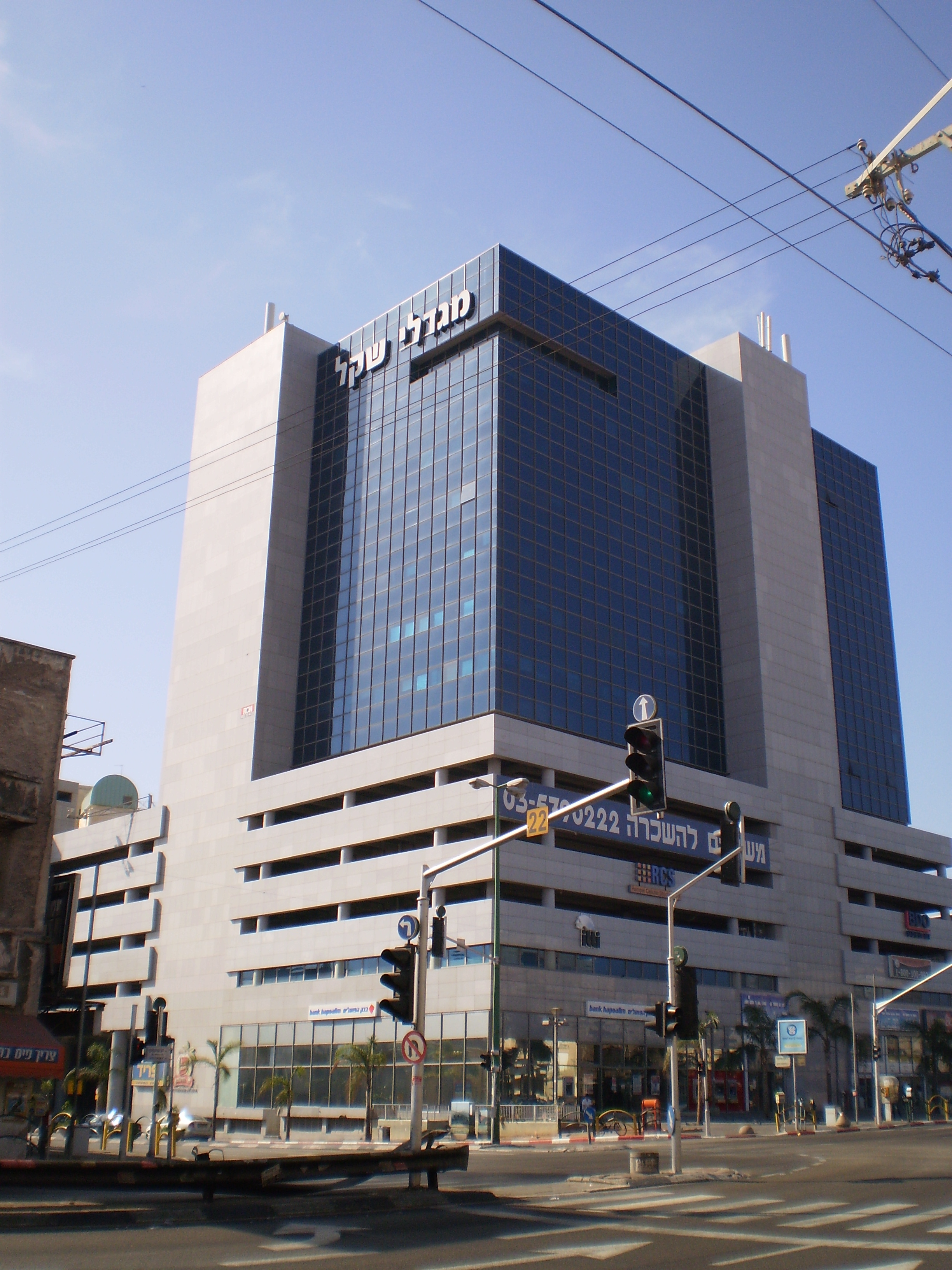 Shekel Towers, Bnei Brak